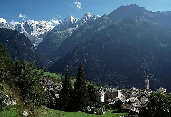 Val Bregaglia, Graubünden, Switzerland: The village of Soglio in front of Bondasca mountains: Sciora, Piz Cengalo, Piz Badile.